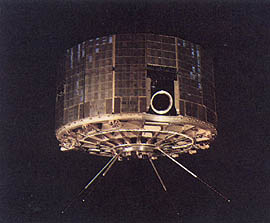 ESSA satellite